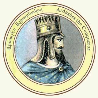 (From, The Armenian National Committee of Australia)